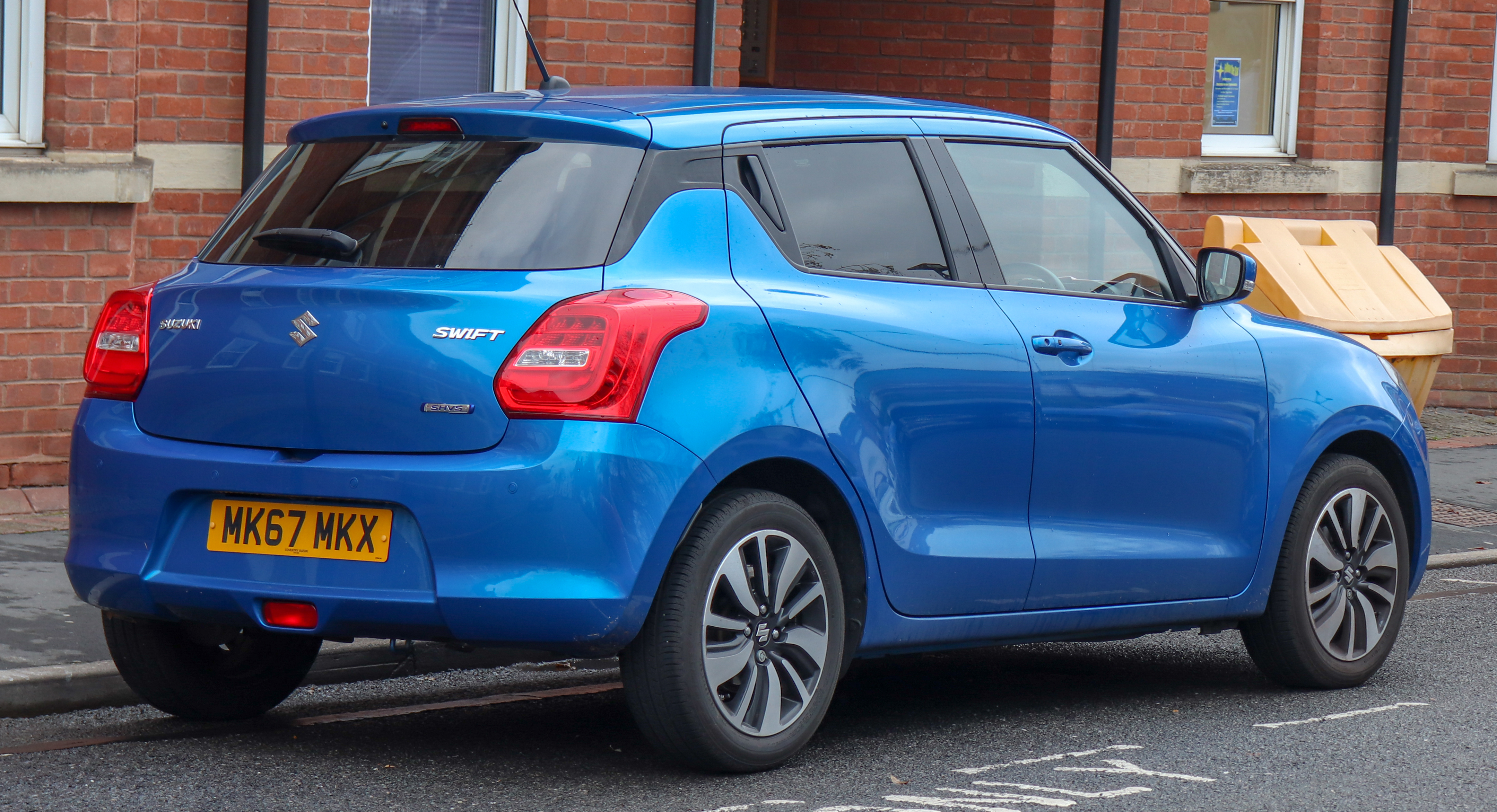 2018 Suzuki Swift SZ5 Boosterjet SHVS 1.0 Rear Taken in Leamington Spa